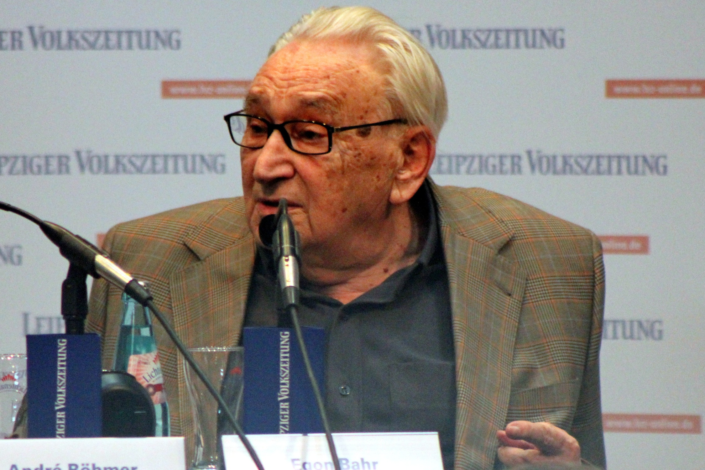 Egon Bahr, Leipzig Book Fair 2013